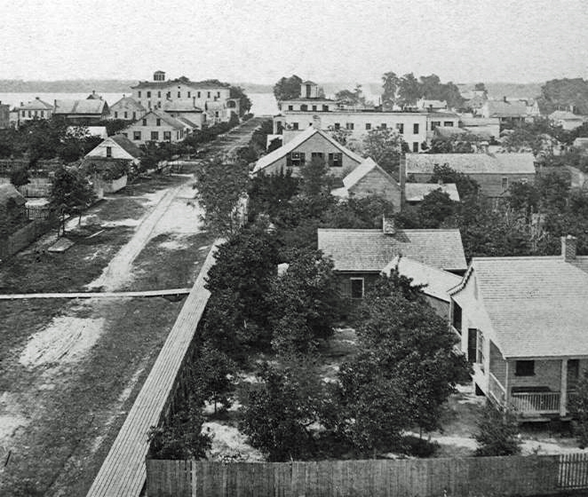 Bird's-eye view of Palatka, Florida. This shows the city before the Great Fire of November 7, 1884, after which it was rebuilt in brick.